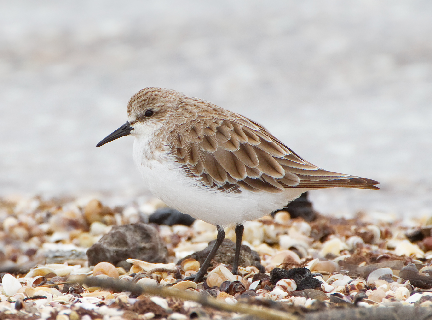 Red-necked Stint (Calidris ruficollis), Winter Plumage, Ralph's Bay, Tasmania, Australia